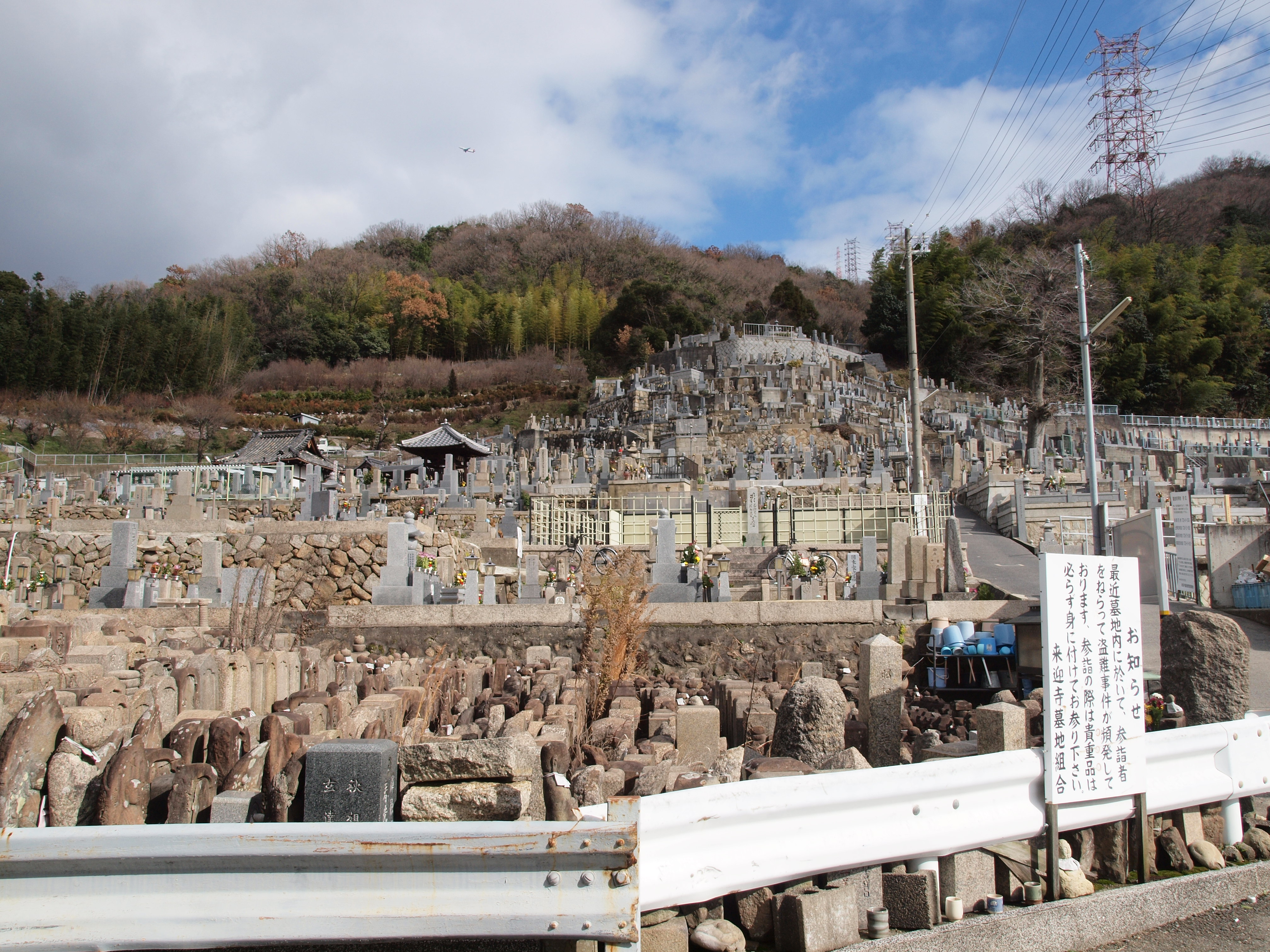 Raigouji Bochi (Cemetery) in Yao, Osaka